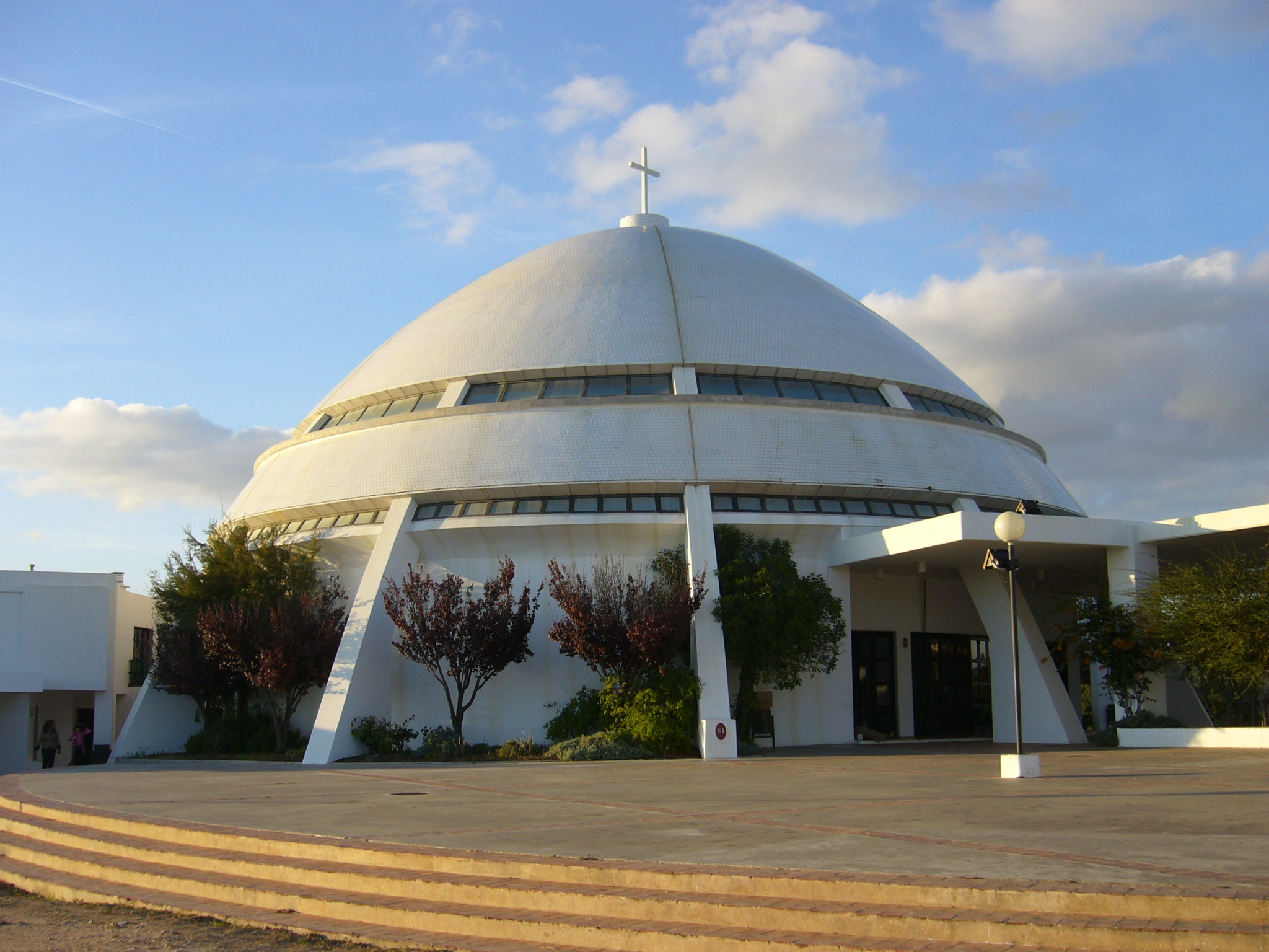 The church/igreja/Ermida de Nossa Senhora da Piedade (Our Lady of Piety) in São Sebastião parish of Loulé in Portugal. More images.